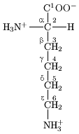 General structure of an aminoacid.